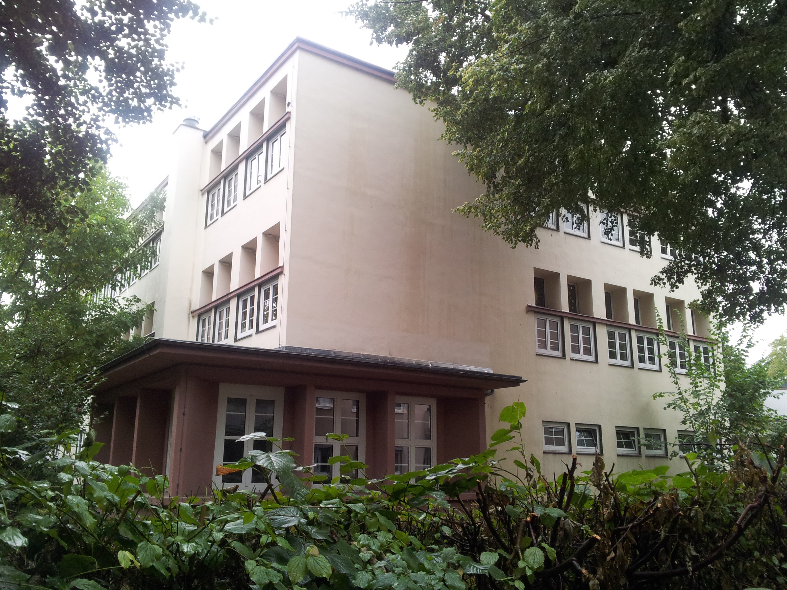 Ludwig-Richter-Schule, Martin Elsaesser-building